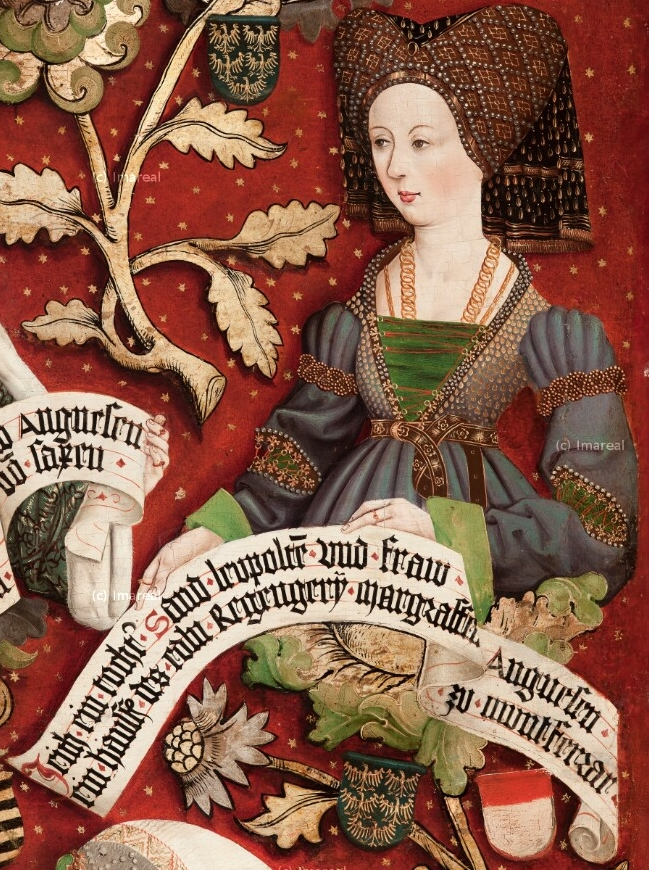 Imaginary portrait of Judith of Babenberg, wife of William V of Montferrat (whom the inscription on the painting misnames 'Renier'). Part of the Genealogy of the Babenberg Ladies, painted by Hans Part, 1490. (Stift Klosterneuburg, Austria).